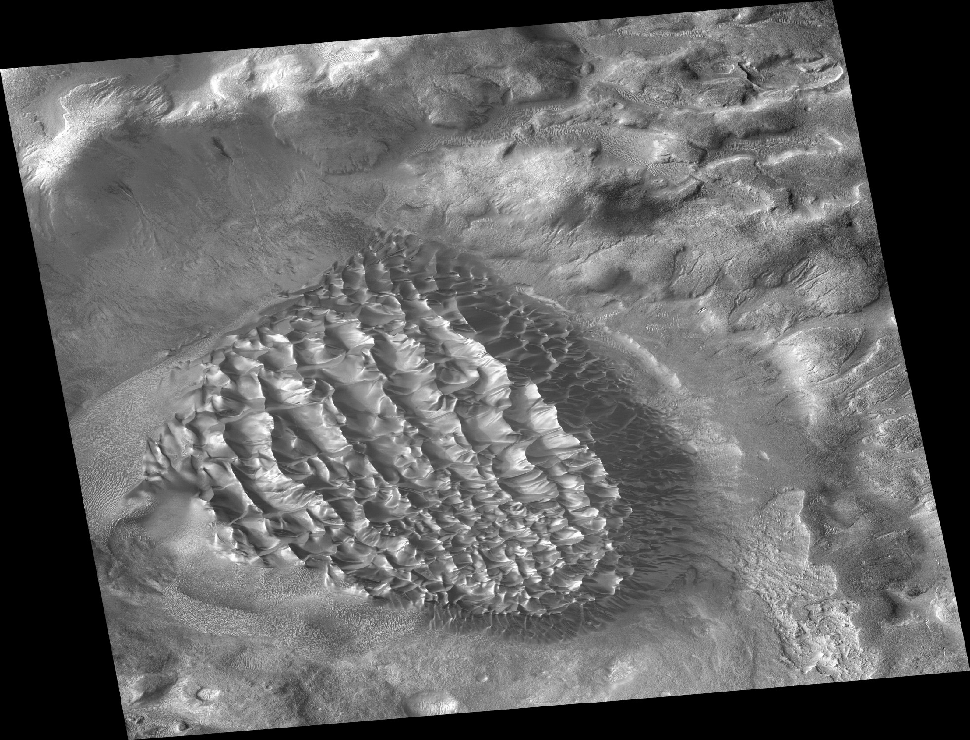 Dunes within Matara crater on Mars. Mars Reconnaissance Orbiter, CTX camera. Emission Angle: 5.15 Incidence Angle: 82.90 Latitude: -49.42 Longitude: 34.71 Phase Angle: 79.41